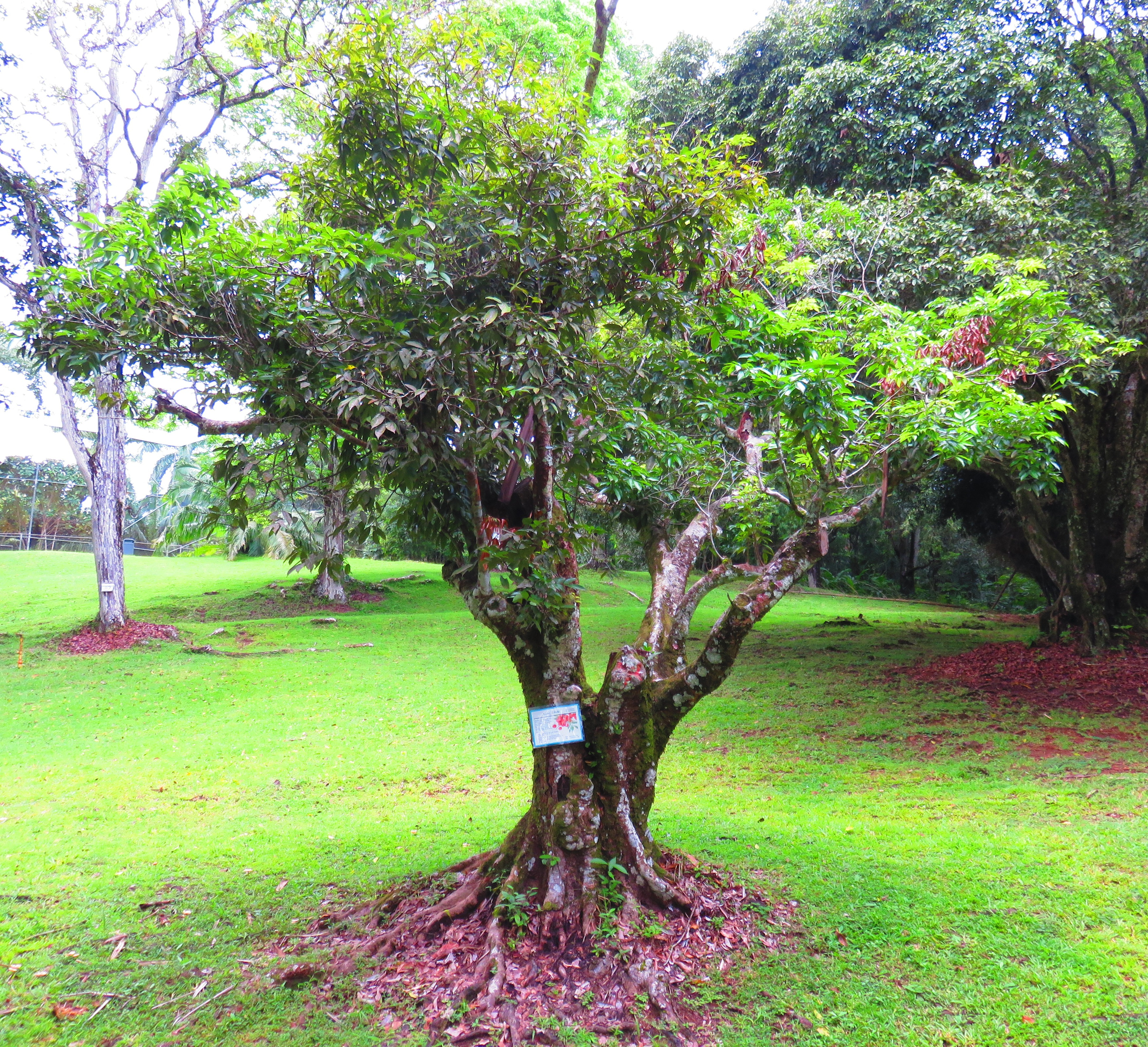 Lychee (Litchi chinensis), Parque Municipal Summit, Panama